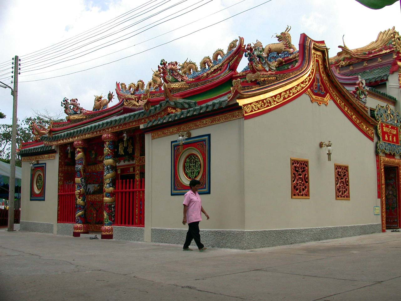 Saan Chao Mae Soi Dok Mak at Wat Panan Choeng (Ayutthaya/Thailand)